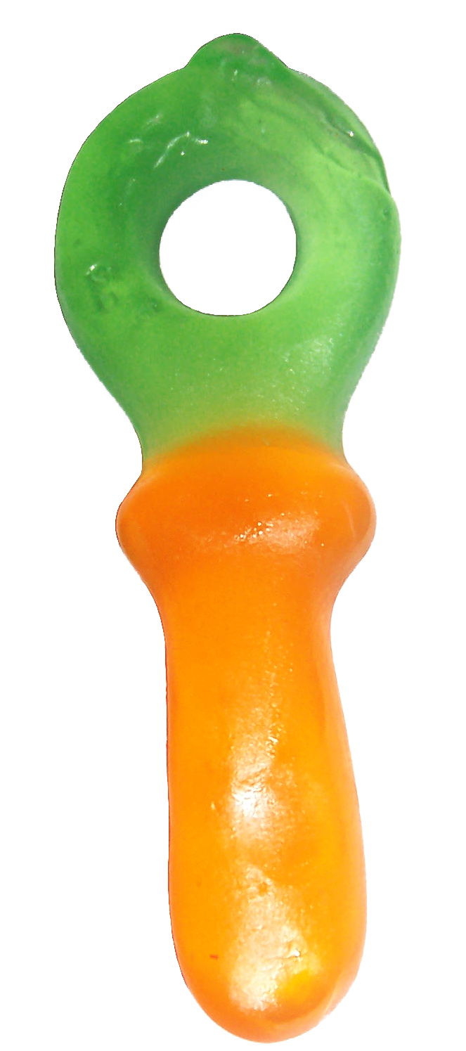 gummy lolly, winegum dummies